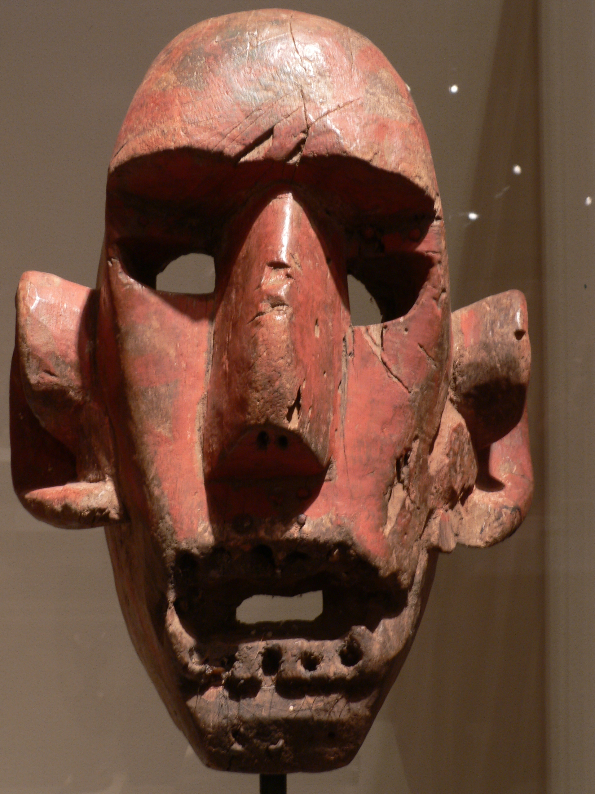 Doei or Kwere, Tanzania Female ancestor figure (mwana hiti) 20th century wood and beads